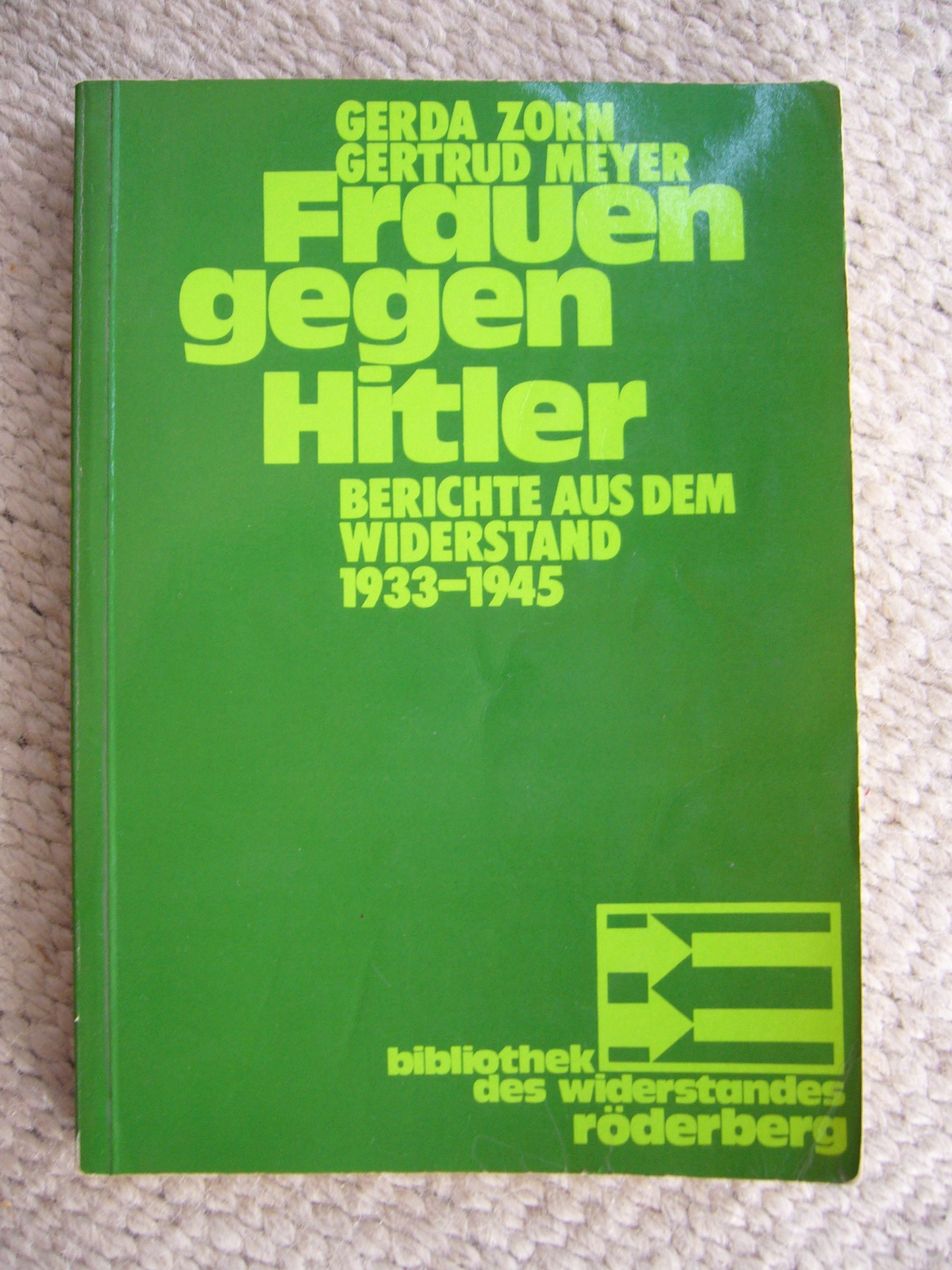 cover of book Frauen gegen Hitler by Gerda Zorn and Gertrud Meyer, published in 1974